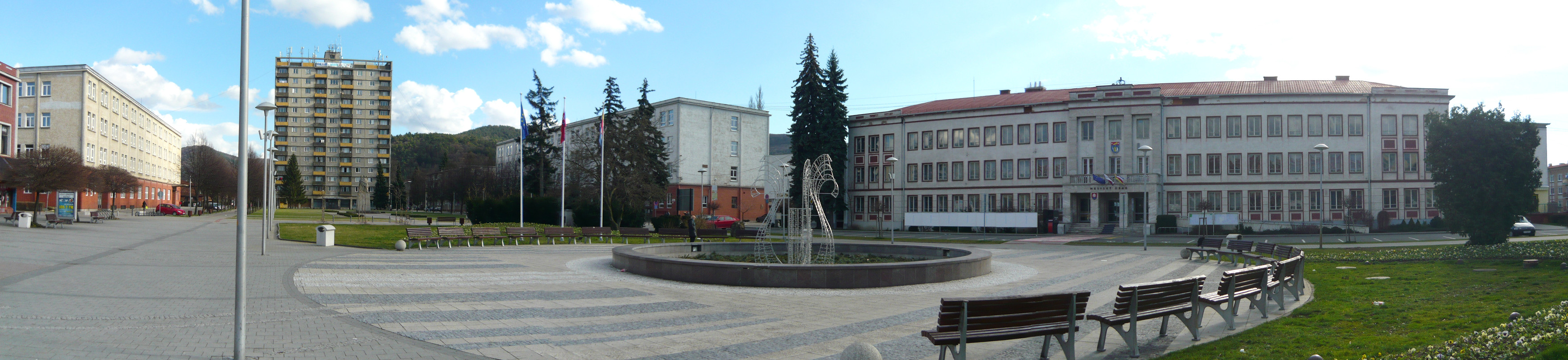 Slovak National Uprising square in Partizánske, Slovakia.